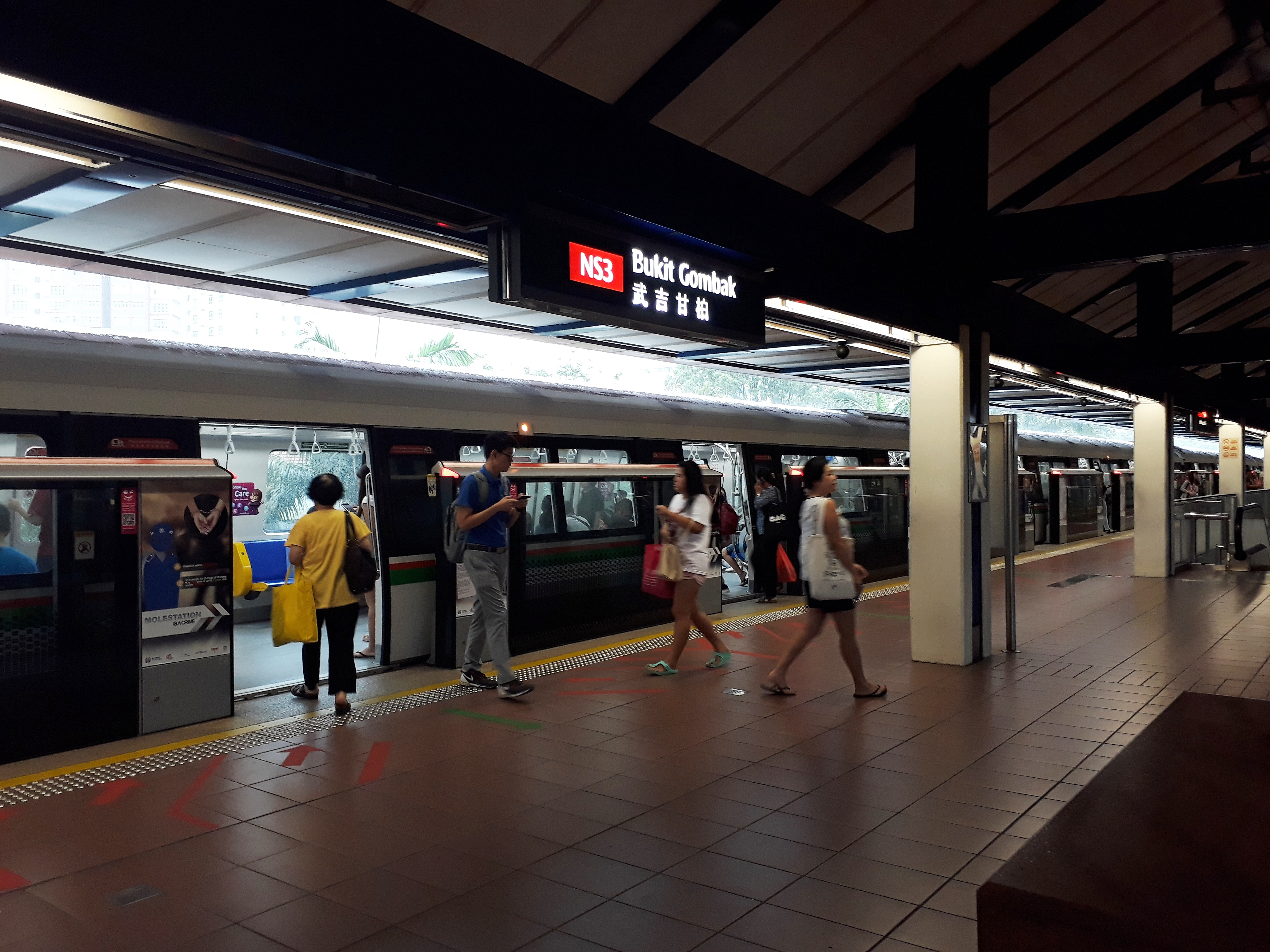 Bukit Gombak